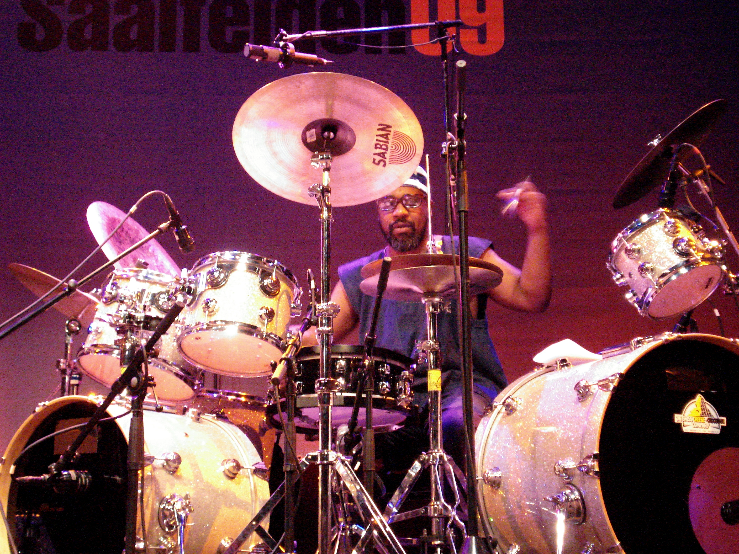 Pheeroan akLaff live at Saalfelden 2009